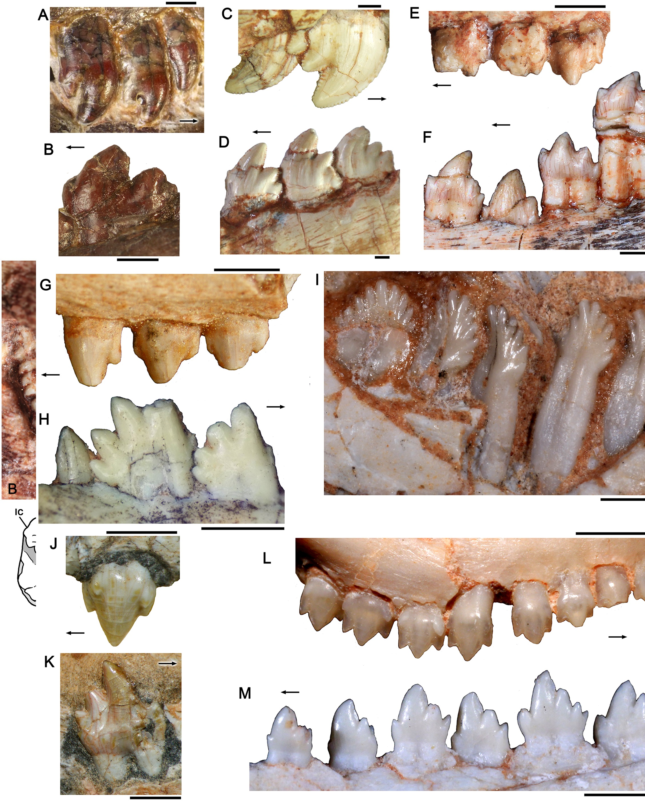 Selected postcanines of probainognathians used for comparisons. A, B, Chiniquodon theotonicus, anterior right upper (A) and posterior left lower (B) postcanines in labial view (PVL 4444). C, D, Trucidocynodon riograndensis, posterior right upper (C) and left lower postcanines in labial view (UFRGS-PV-1051-T). E, F, Prozostrodon brasiliensis, posterior left upper (E) and lower (F) postcanines in labial view (UFRGS-PV-0248-T). G, H, Irajatherium hernandezi, left upper (G, UFRGS-PV-1175-T) and posterior right lower (H, UFRGS-PV-1029-T) in labial view. I, Riograndia guaibensis, left lower postcanines in lingual view (UFRGS-PV-0833T). J, K, Botucaraitherium belarminoi, left upper postcanine in labial view (J) and posterior left postcanine in lingual view (K) (MMACR-PV-003-T). L, Brasilodon quadrangularis, right upper postcanines in labial view (UFRGS-PV-0611T). M, Brasilitherium riograndensis, left lower postcanines in labial view (UFRGS-PV-0603T). The arrows indicate mesial side. Scale bar equals 2 mm.